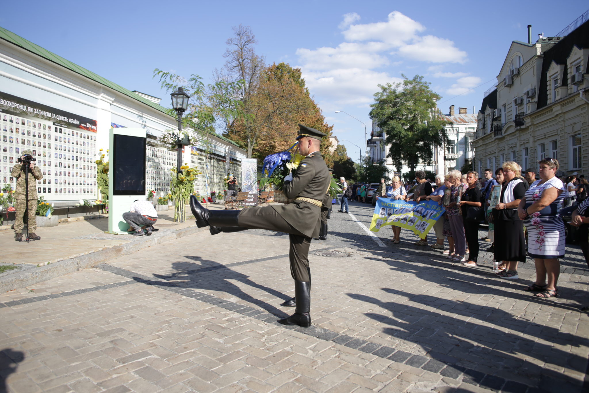 Wall of Remembrance at St. Michael's Monastery, Kyiv